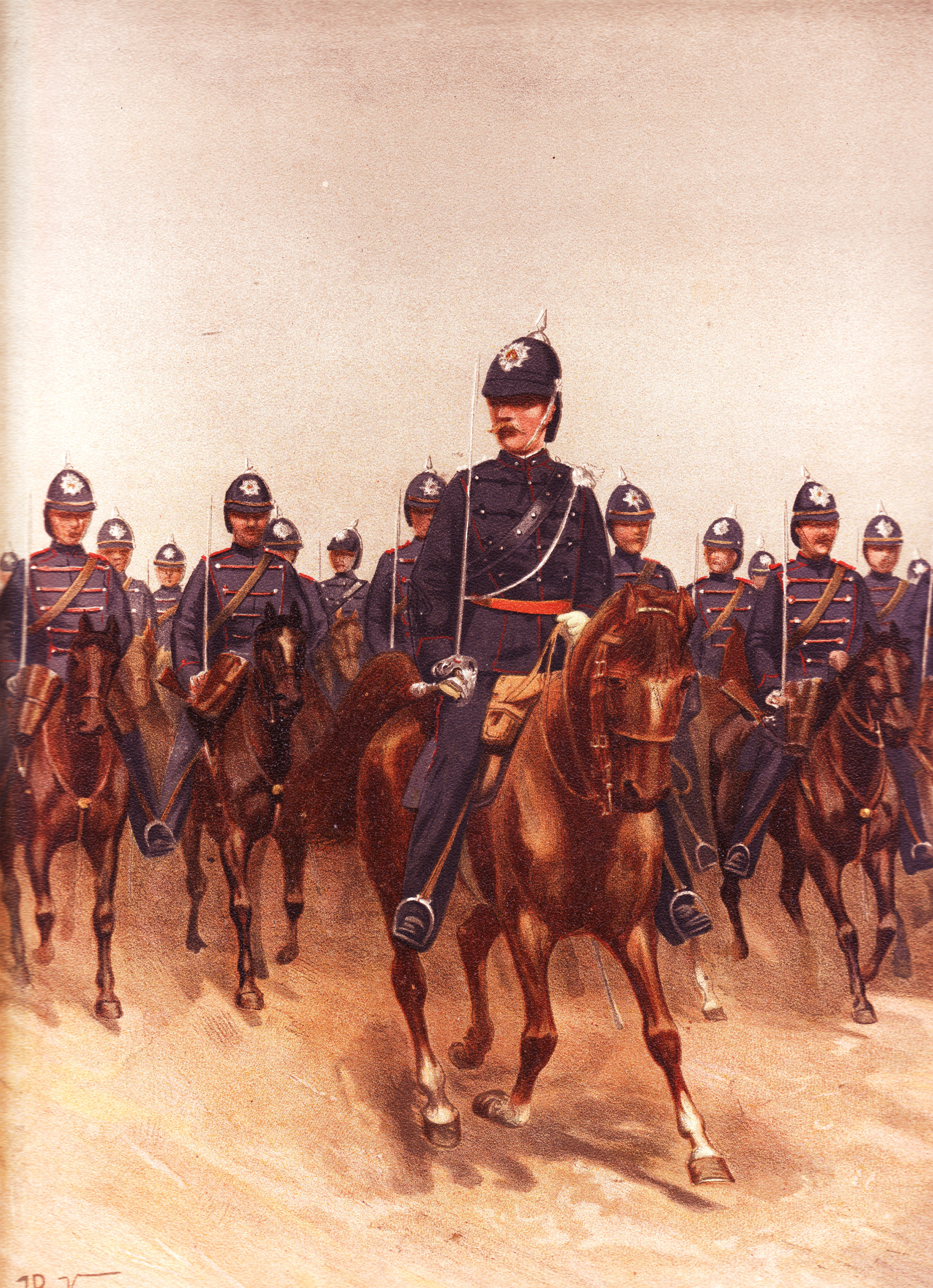 Cavalerie Indisch leger